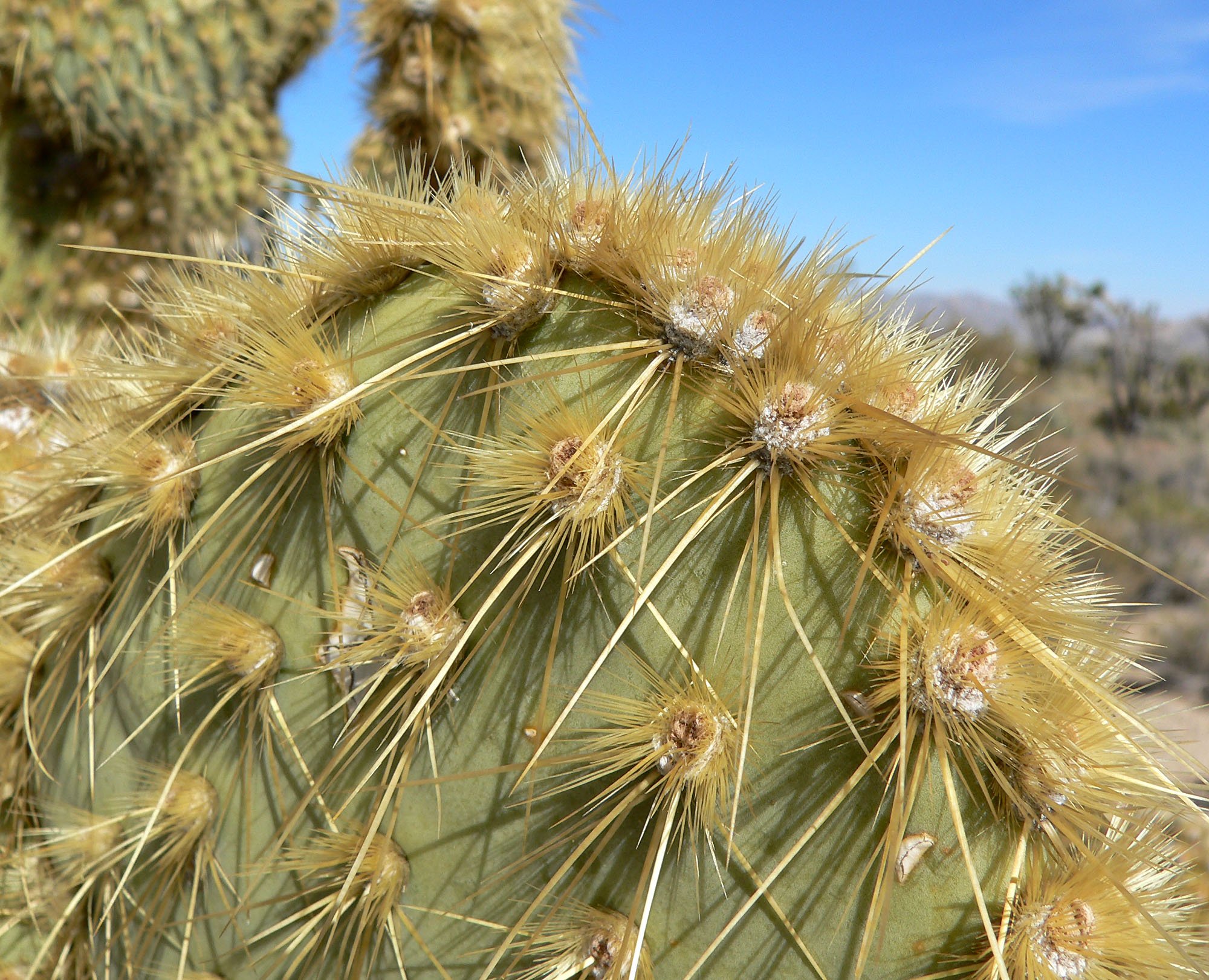 Opuntia chlorotica on Teutonia Peak trail, Cima Dome, Mojave National Preserve, southeastern California